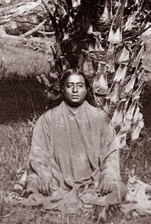 Paramahansa Yogananda meditating.